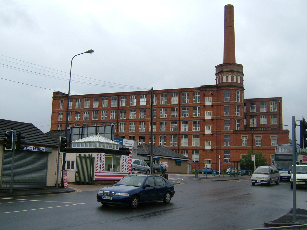 Ashton-under-Lyne on the River Tame is where the Ashton Canal meets the Peak Forest Canal and the Huddersfield Narrow Canal. Cavendish Mill.